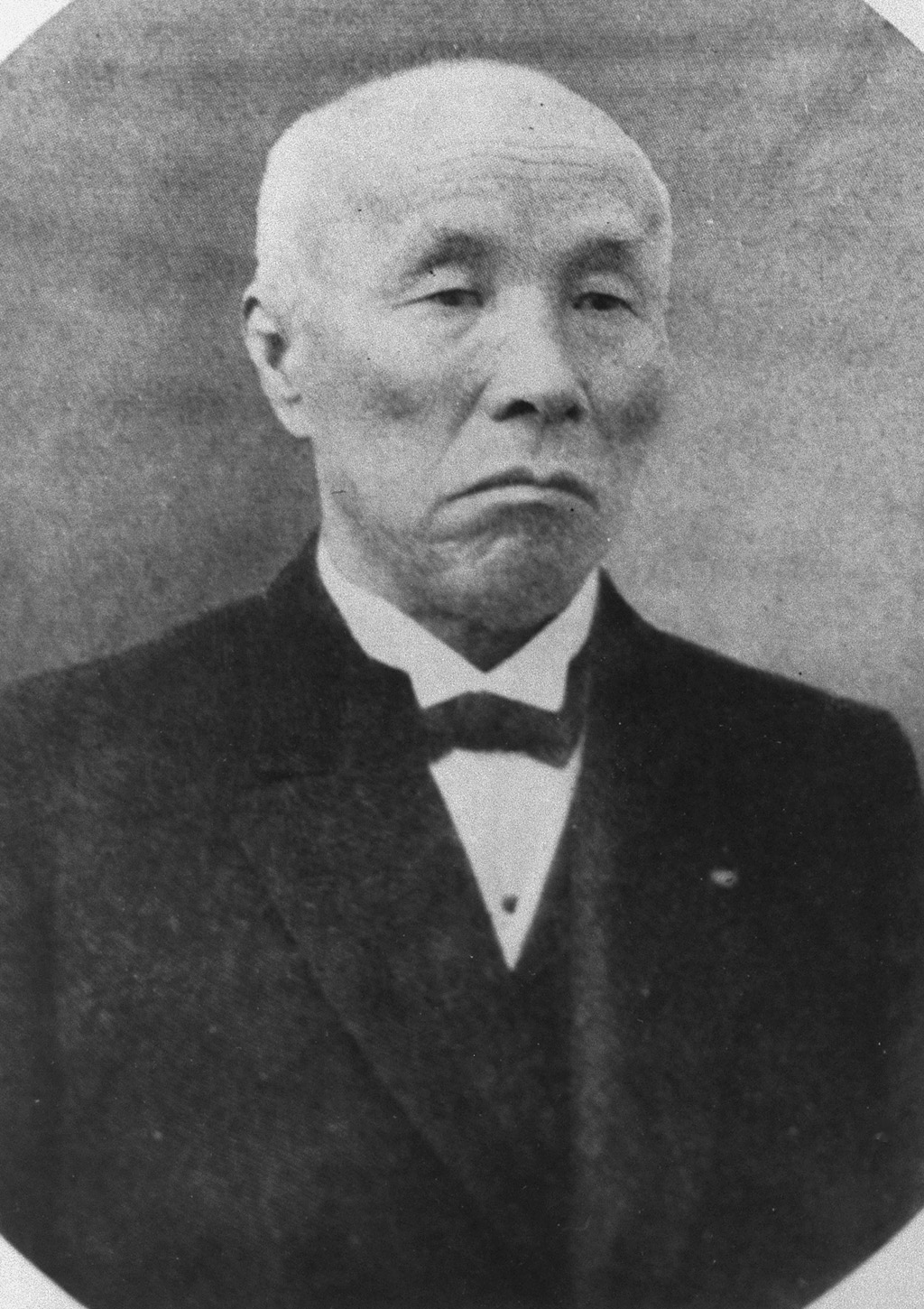 Portrait of Okuma Shigenobu (大隈重信, 1838 – 1922)